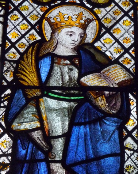 Saint Mabena from a stained glass window in St Neot Church Cornwall. Inscription below in Latin reads "St.Mabena, pray for us."